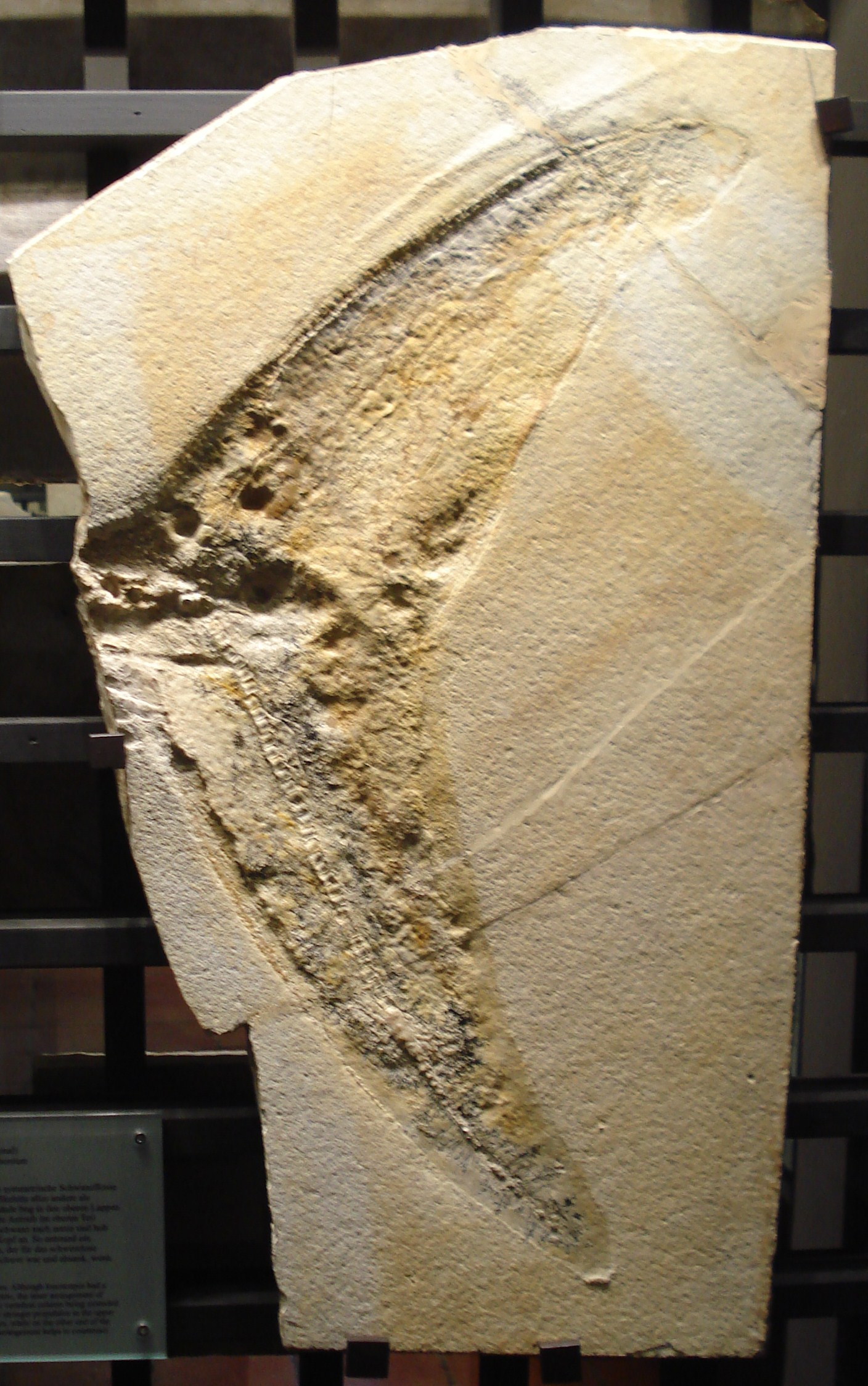 fossil of macropterygius